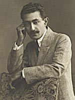 Ali-Akbar Dāvar (1888-1937), Iranian politician and founder of the modern judicial system of Iran.